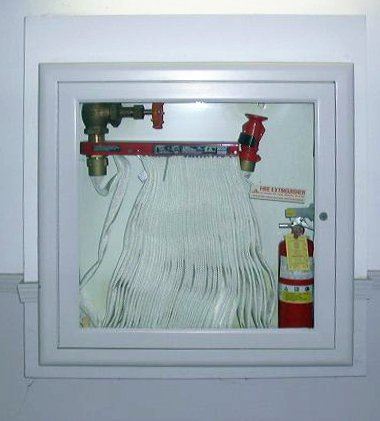 Picture of an indoor firehose.